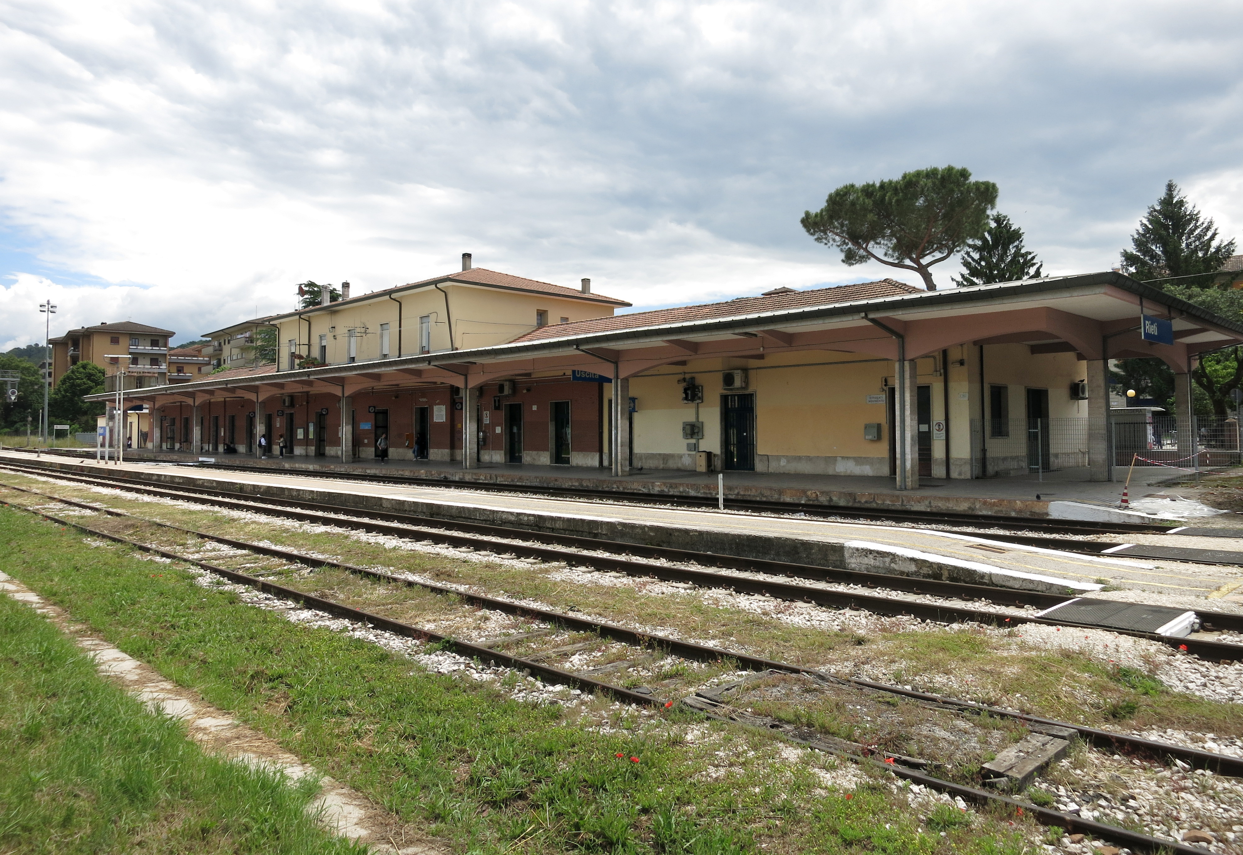 Railway station of Rieti (Lazio, Italy) on the Terni-L'Aquila-Sulmona line. View of the passenger building by the tracks, on Terni side. Picture taken from behind the Porrara street enclosure.